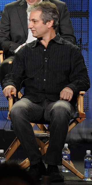 David Shore during the HOUSE session of the 2009 FOX WINTER TCA Tuesday, Jan. 13 at the Universal Hilton in Universal City, CA.